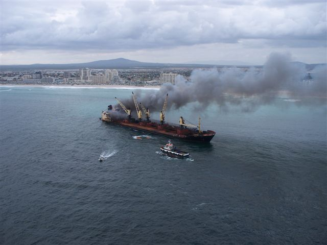 ER24 paramedics responded to Blouberg Beach where they were called to be on medical standby after the Seli 1 had caught fire. The emergency crews could see the plume of smoke as they pulled out from their base at Milnerton Medi-Clinic. When they arrived on scene they set up a medical staging area in case patients were brought to the beach by the NSRI, who were conducting the rescue.